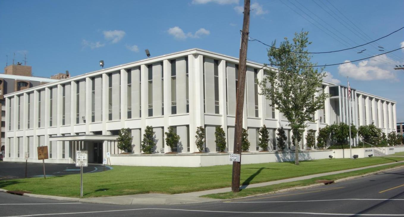 Archdiocese of New Orleans building, 7887 Walmsley Ave.